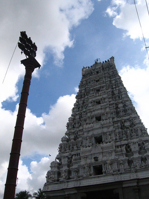 Uthiramerur Temple, Tamil Naud